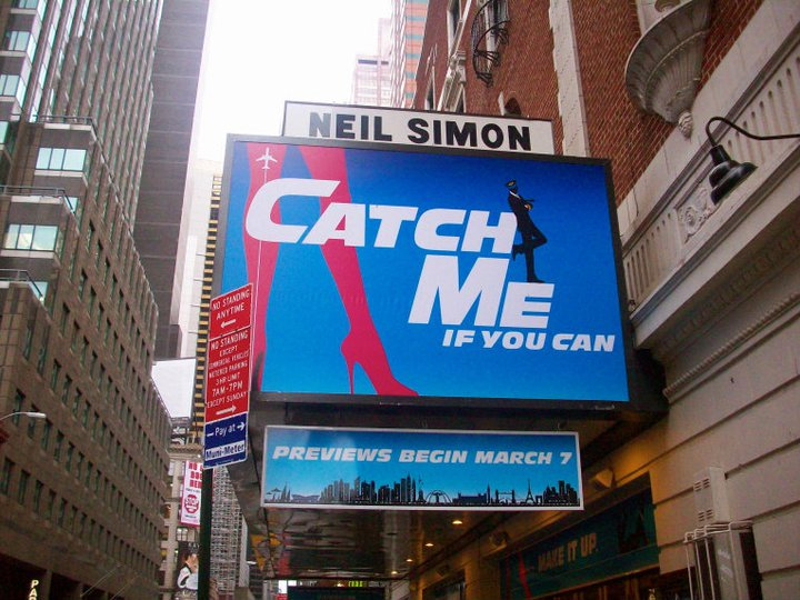 Picture of the front of theater for Catch Me If You Can